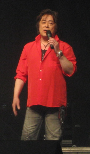 Takayuki Miyauchi at Anime Friends 2010 in São Paulo, Brazil